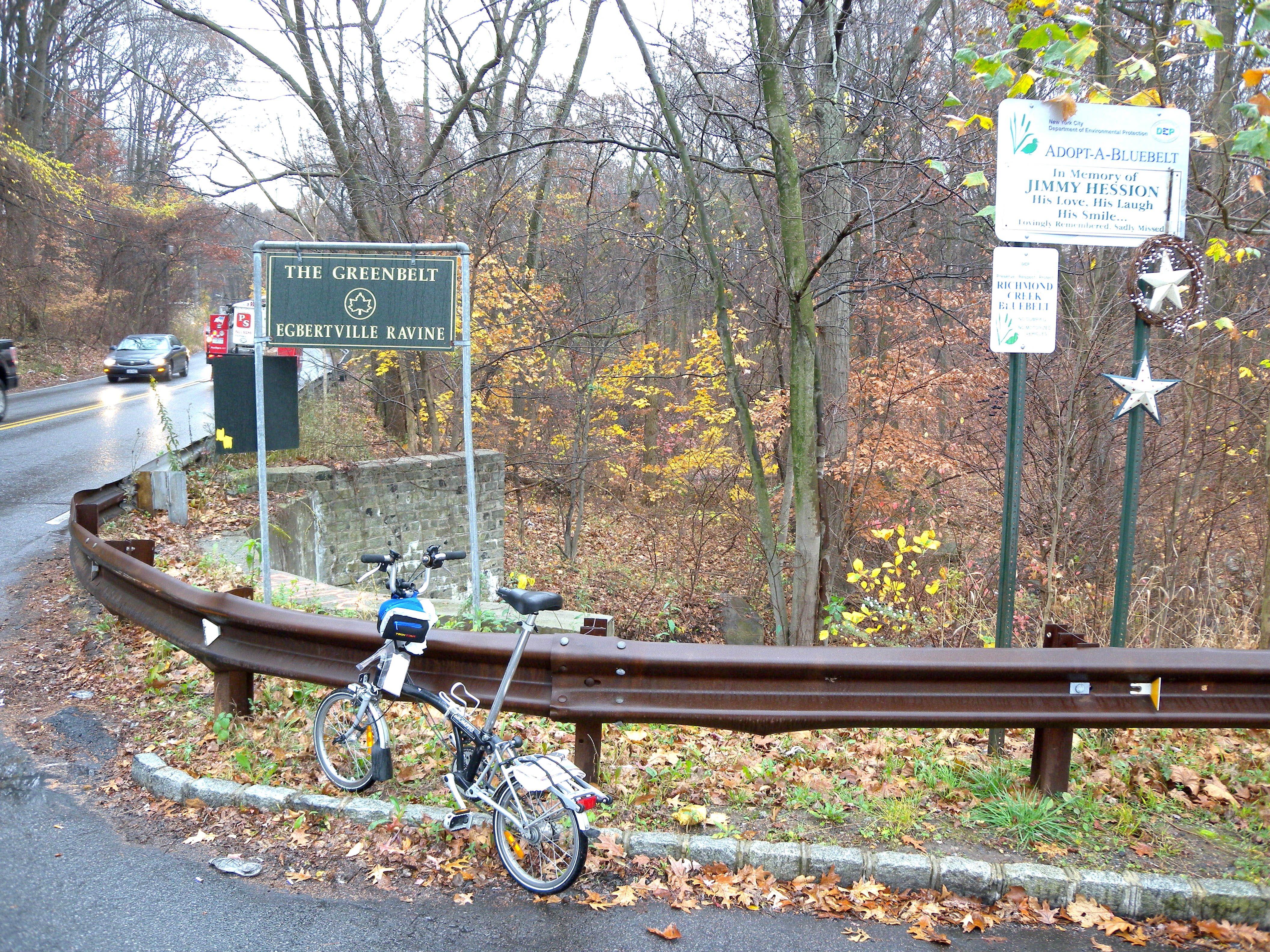 Looking south across Meisner Avenue and along Rockland Avenue past signs for Bluebelt/Greenbelt at the head of Egbertville Ravine below Lighthouse Hill on a rainy midday. Photographer's Brompton bicycle in foreground.